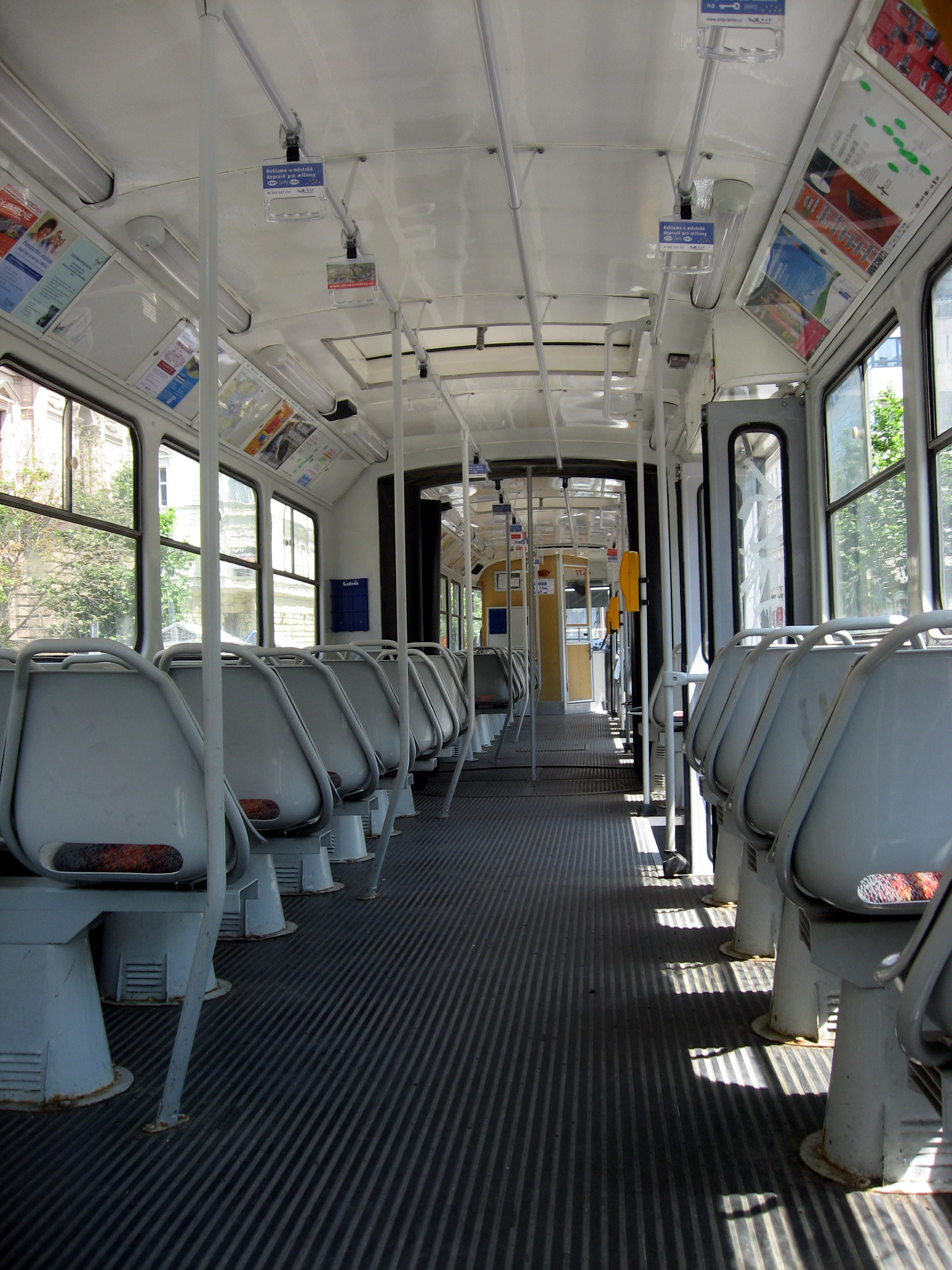 Strike, 2008-06-24, Brno, Czech Republic